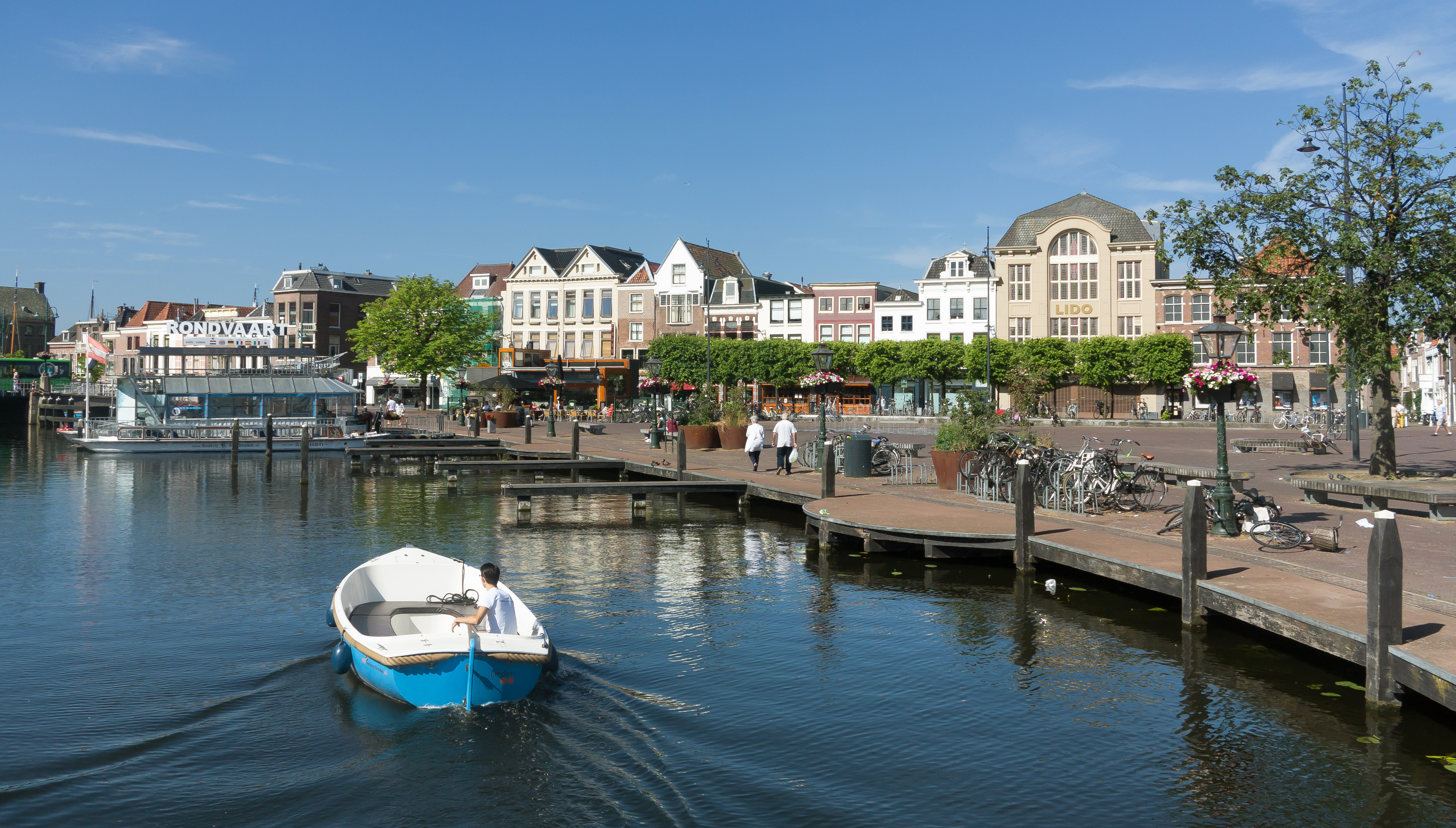 Leiden, street view: de Beestenmarkt-Steenstraat